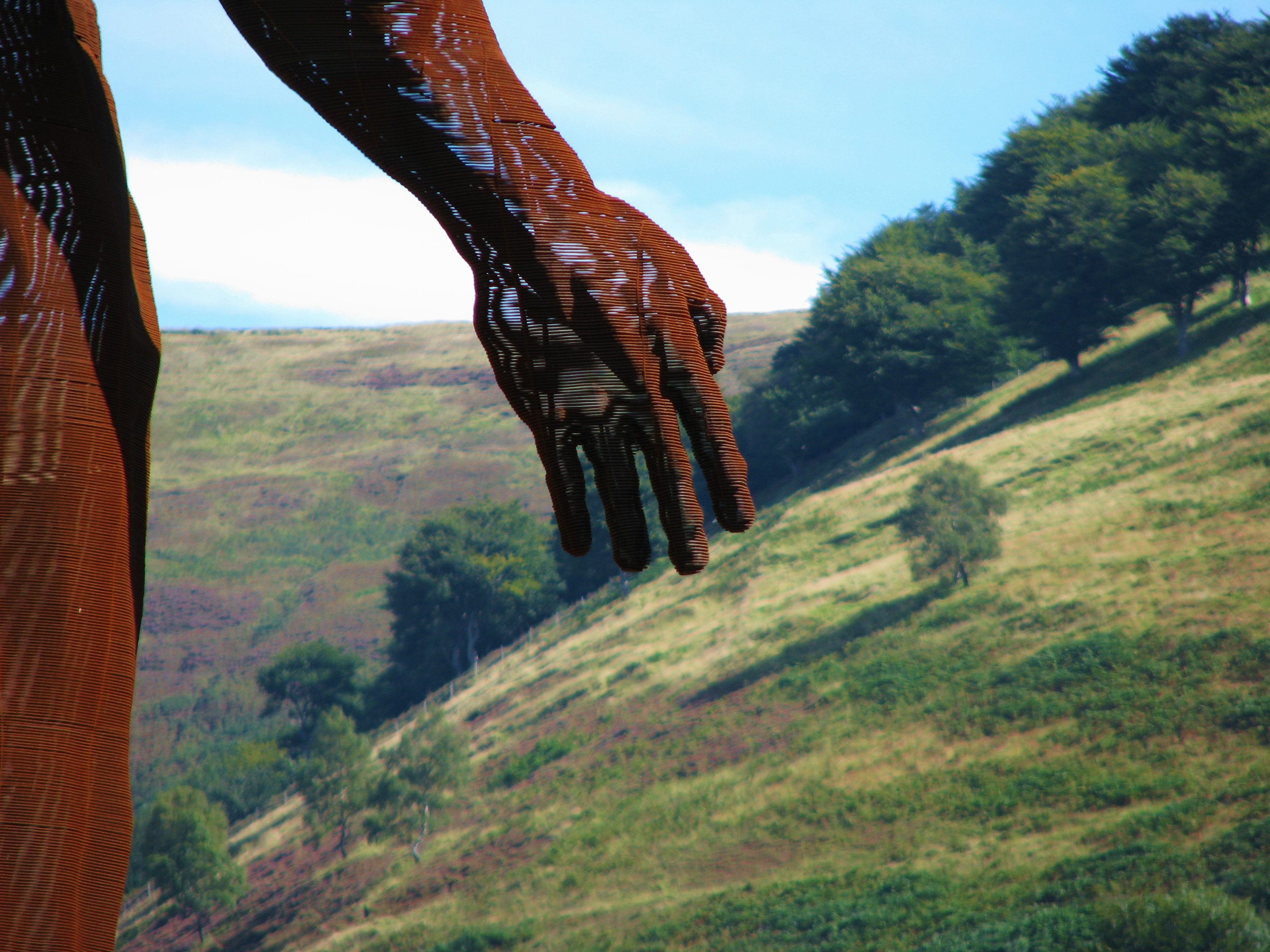 In these hands